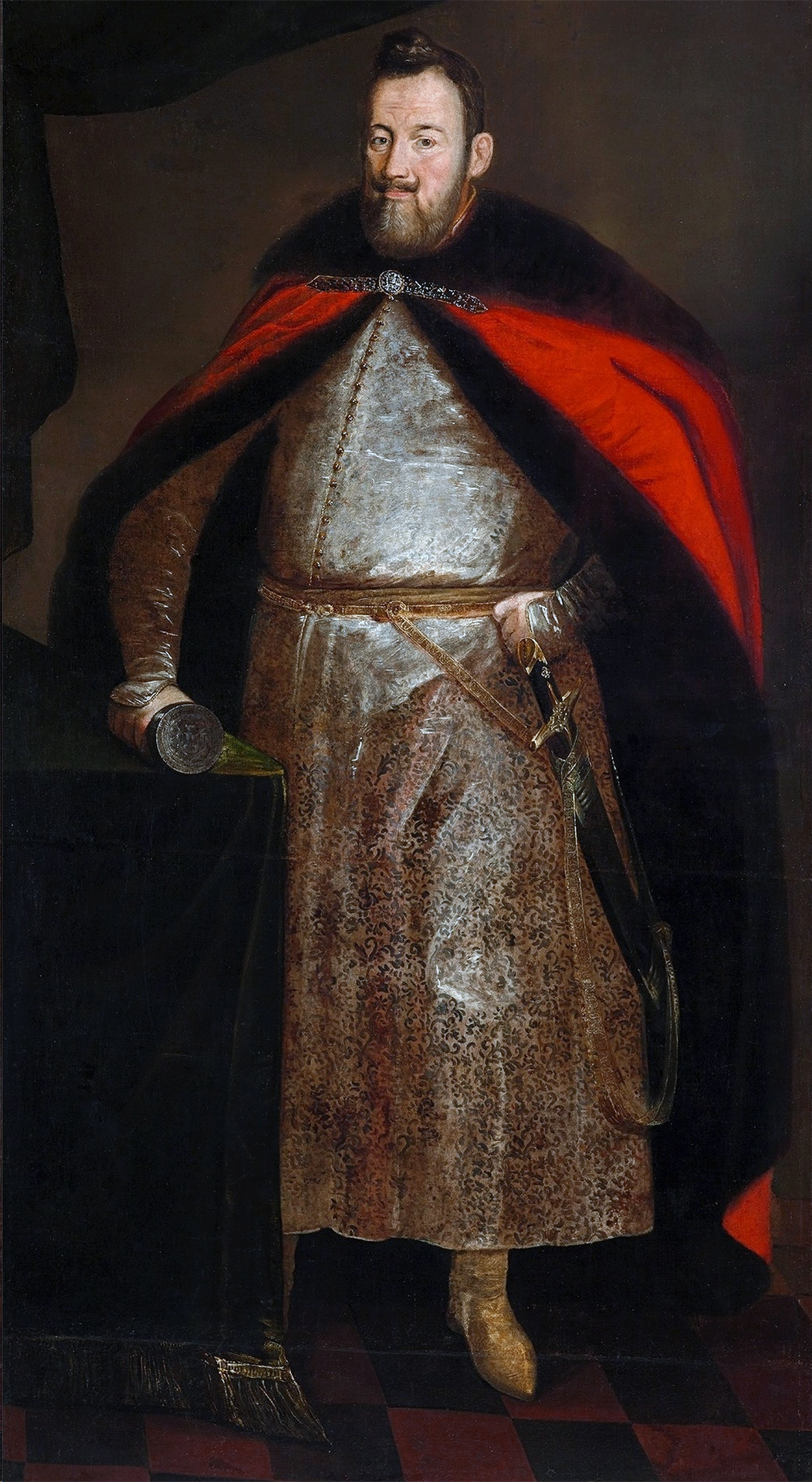 Jerzy Ossoliński by Peeter Danckers de Rij